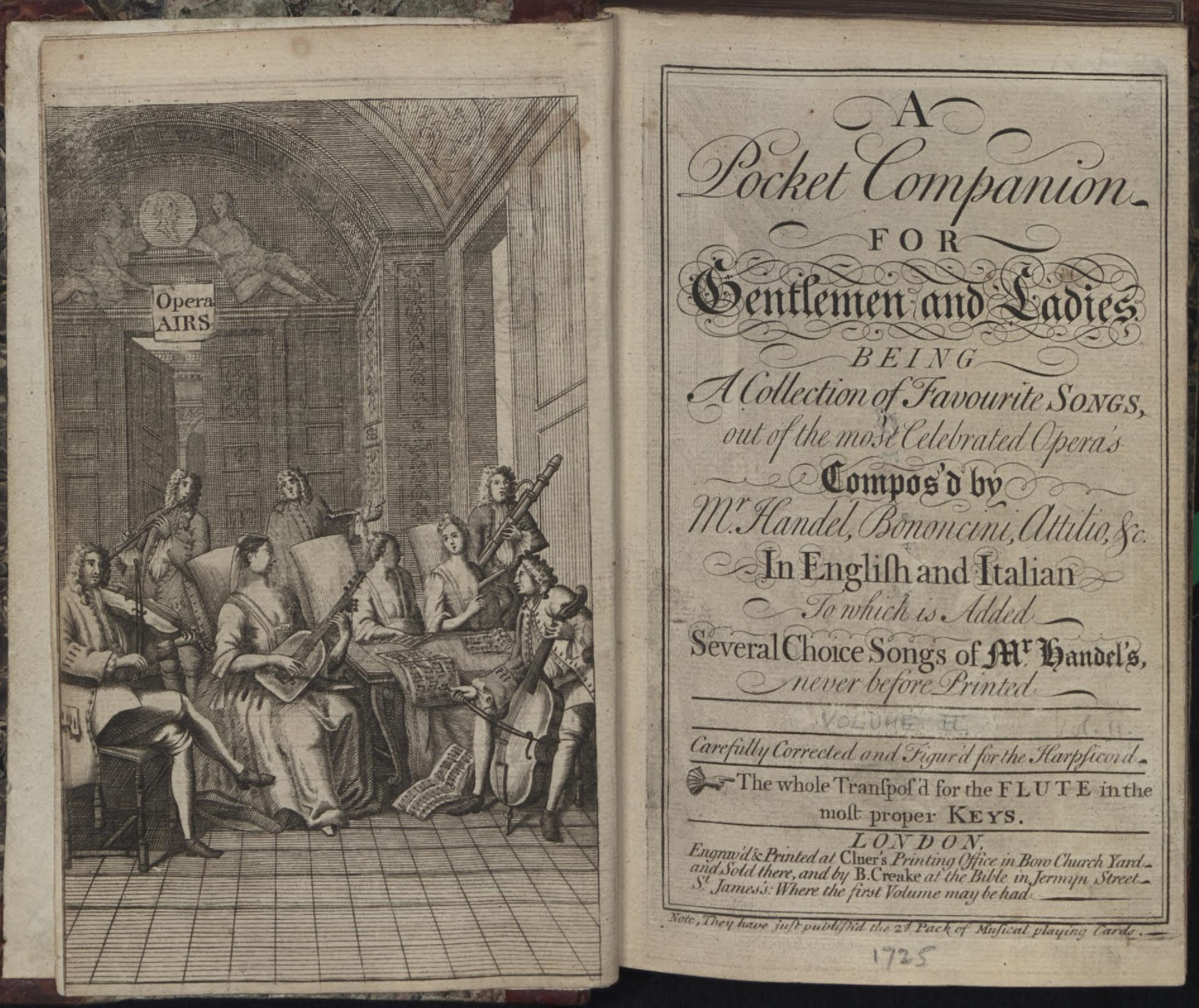 Frontisp[ece and title page of Pocket Companion containing arias from operas by Handel and two other composers for voice, harpsichord or flute, printed by Cluer and Creake, edited and arranged by Richard Neale